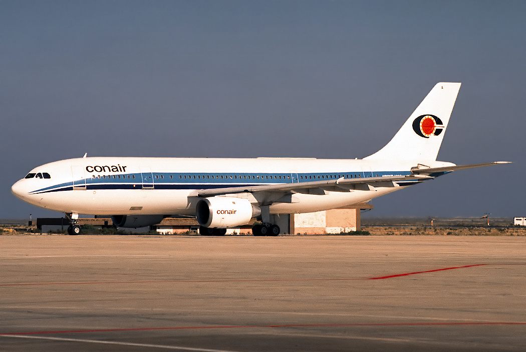 Conair of Scandinavia Airbus A300B4-120 OY-CNA at Faro Airport